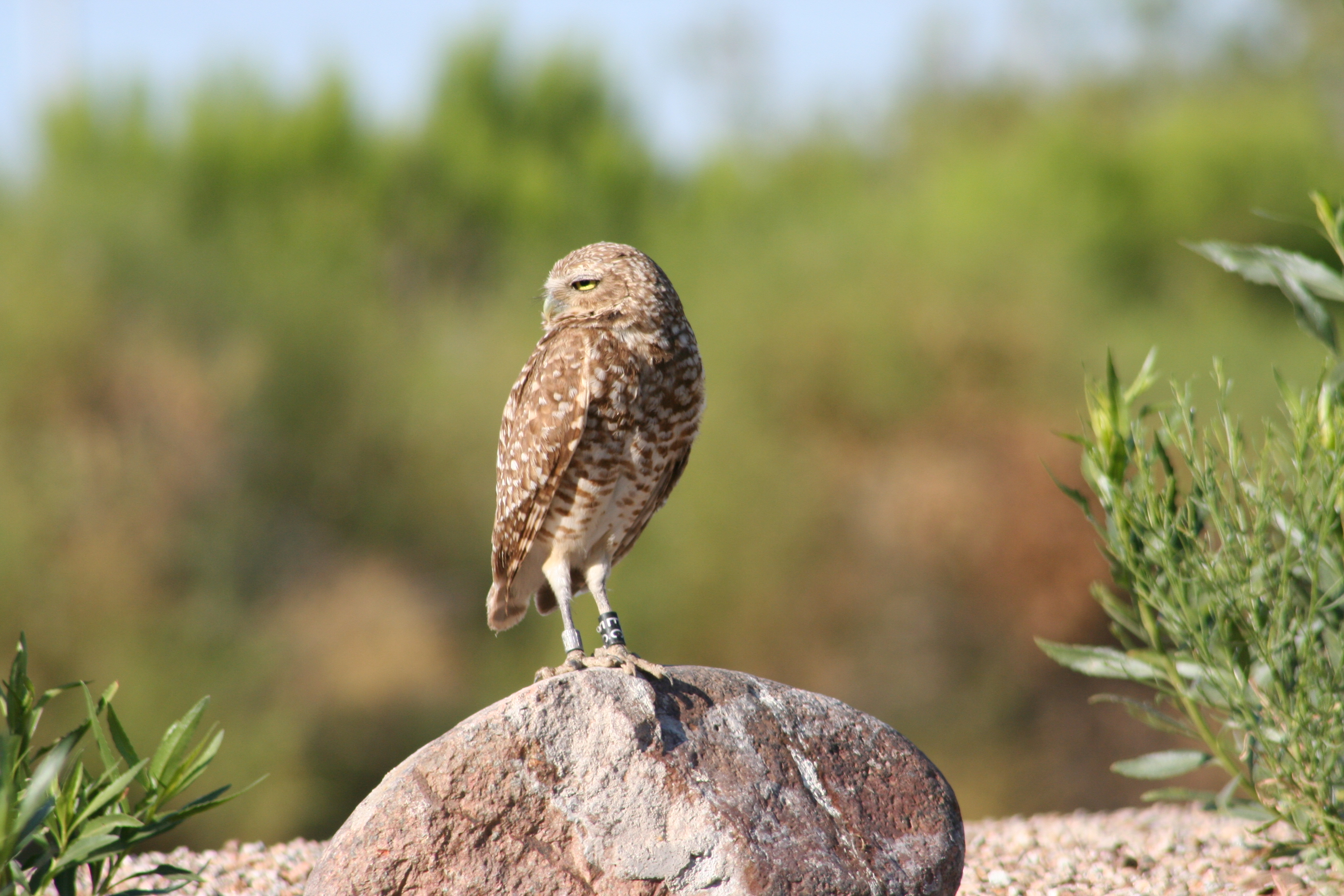 I took this myself. Location: possibly Canada, where black colour bands are in use on Burrowing Owls ([1])